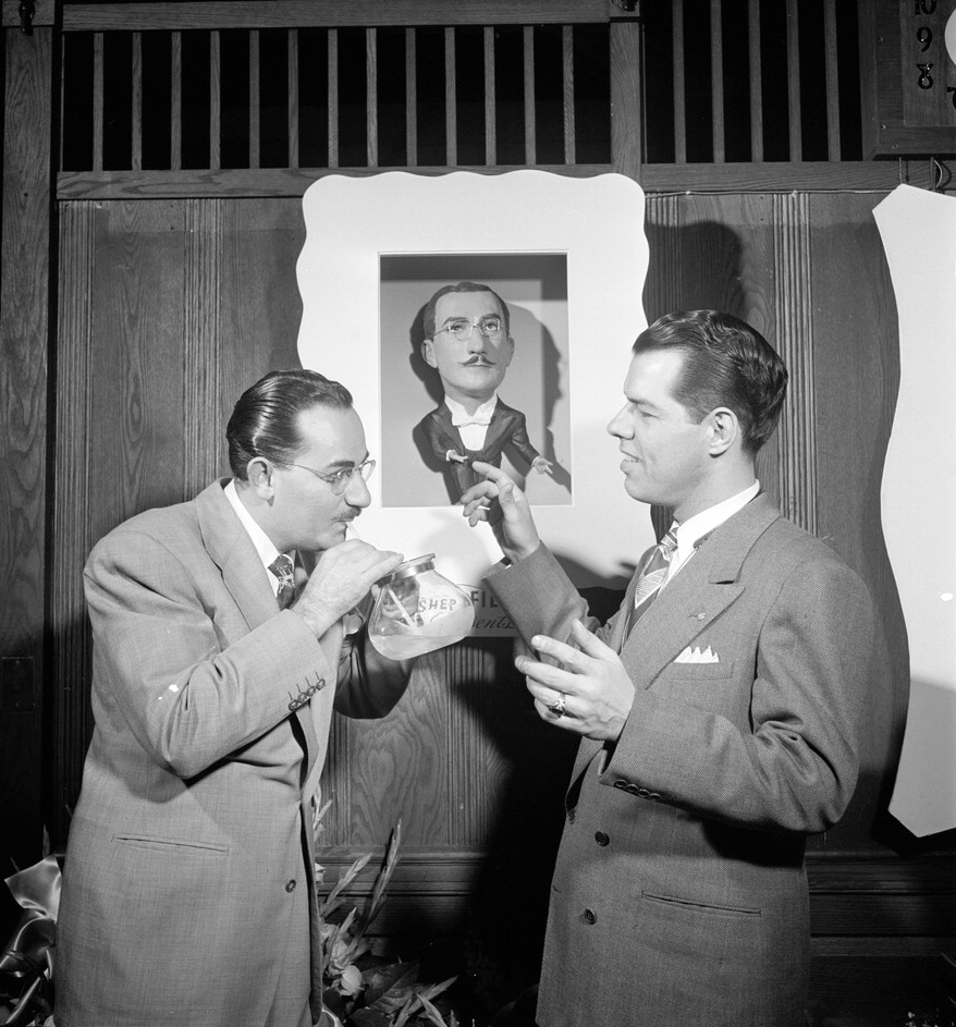 Shep Fields and Tex Beneke, Glen Island Casino, New York, May 1946. Photography by William P. Gottlieb